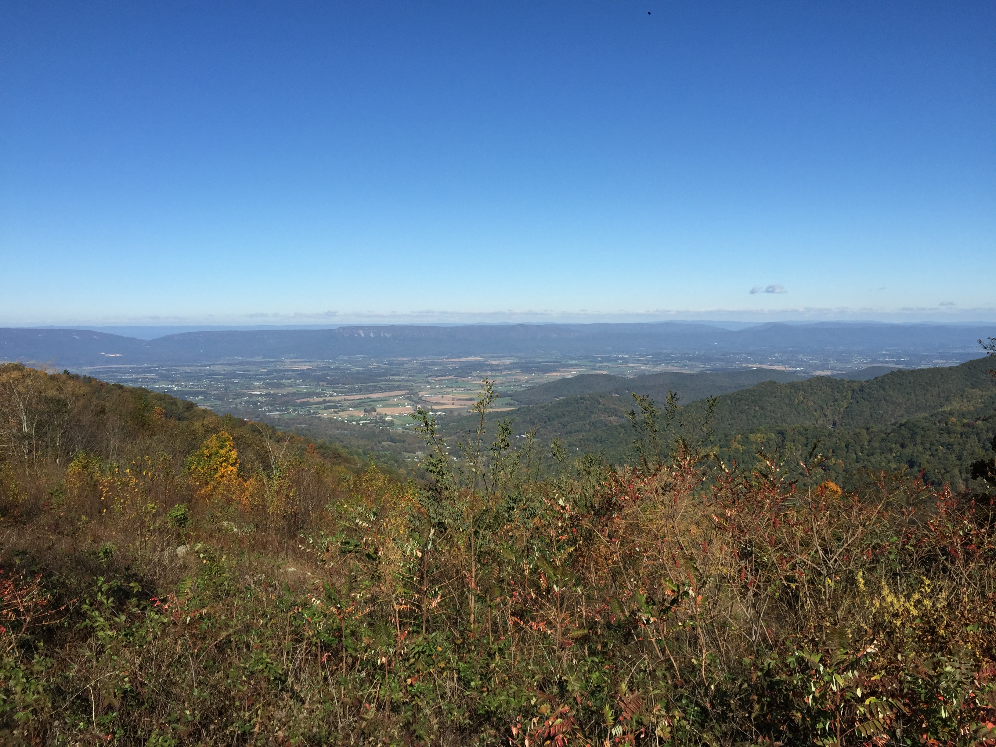 View northwest from the Fishers Gap Overlook along Shenandoah National Park's Skyline Drive on the border of Page County, Virginia and Madison County, Virginia